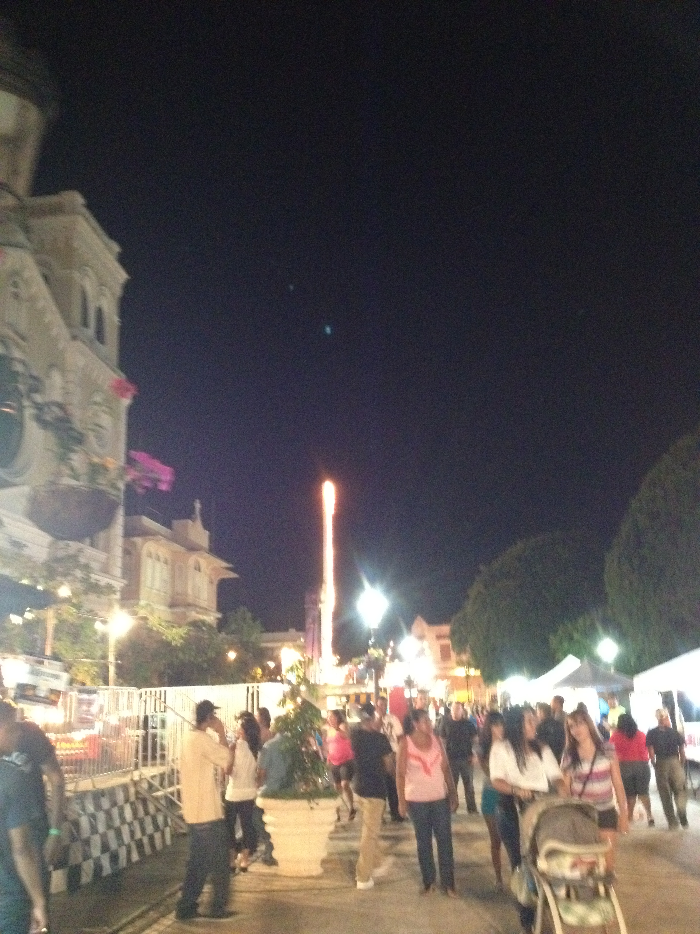 Junio 2012